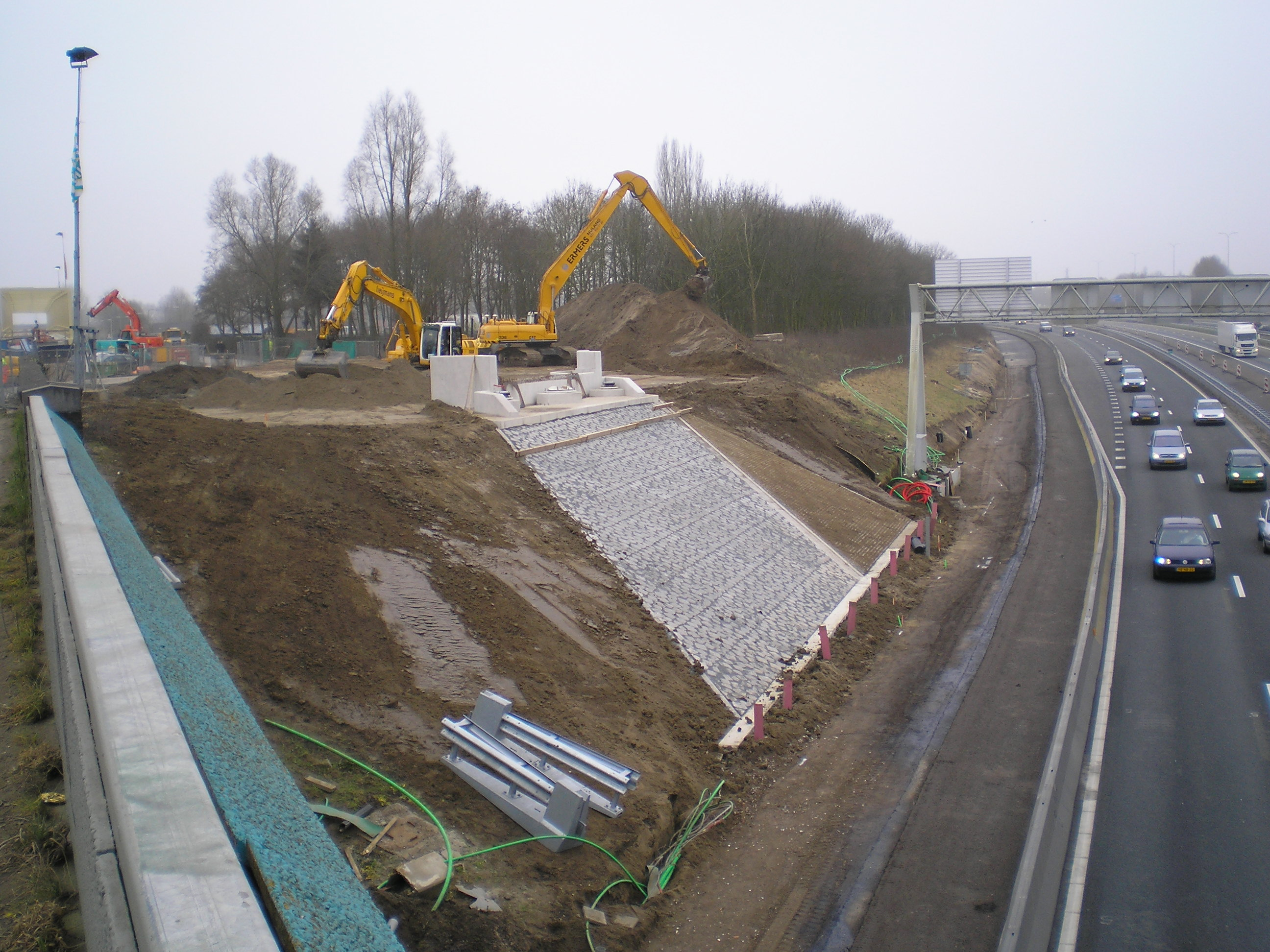 Concrete supports for mega bridge over the A27 motorway to Utrecht in the Netherlands